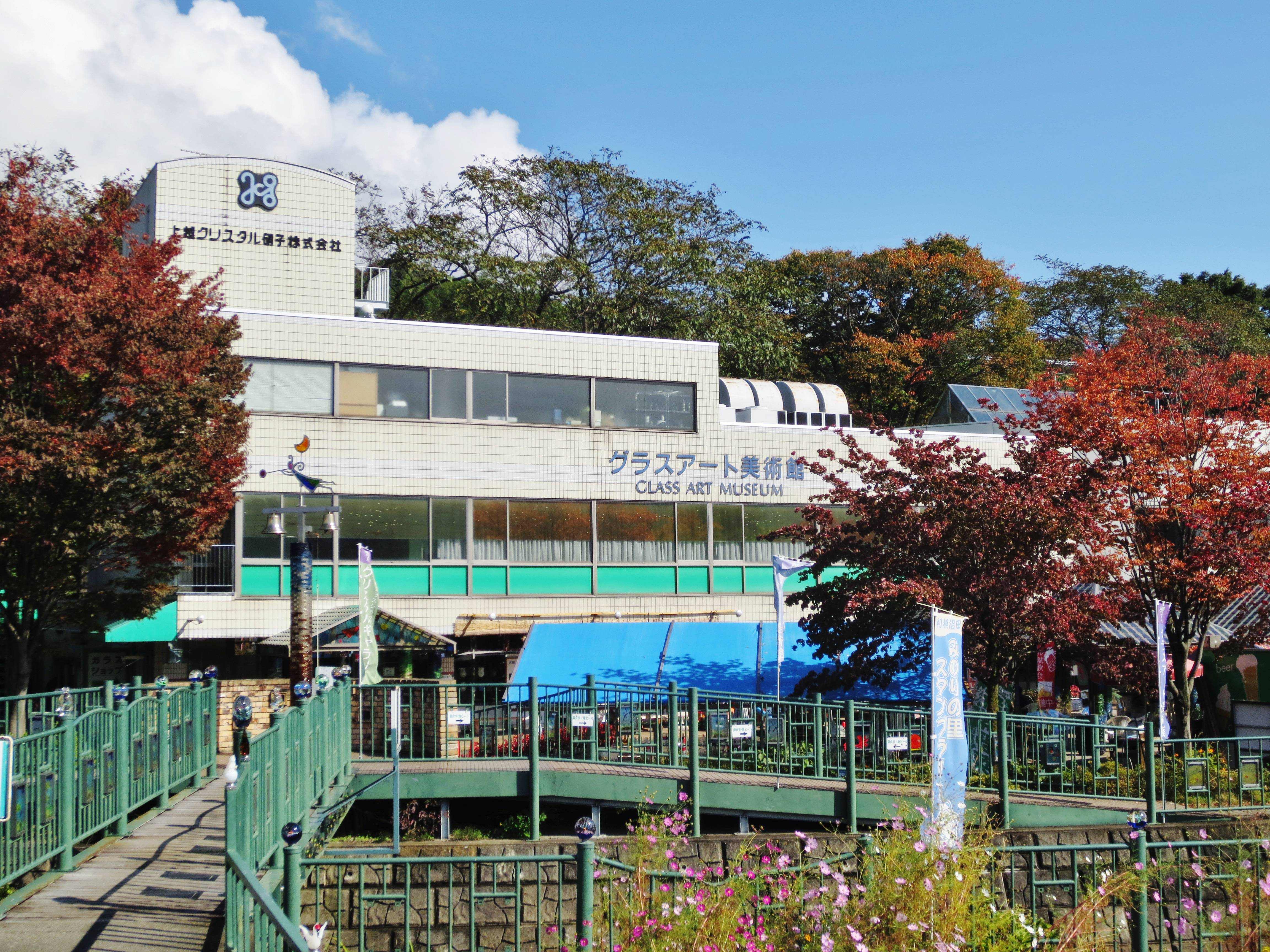 Tsukiyono Vidro Park museum.